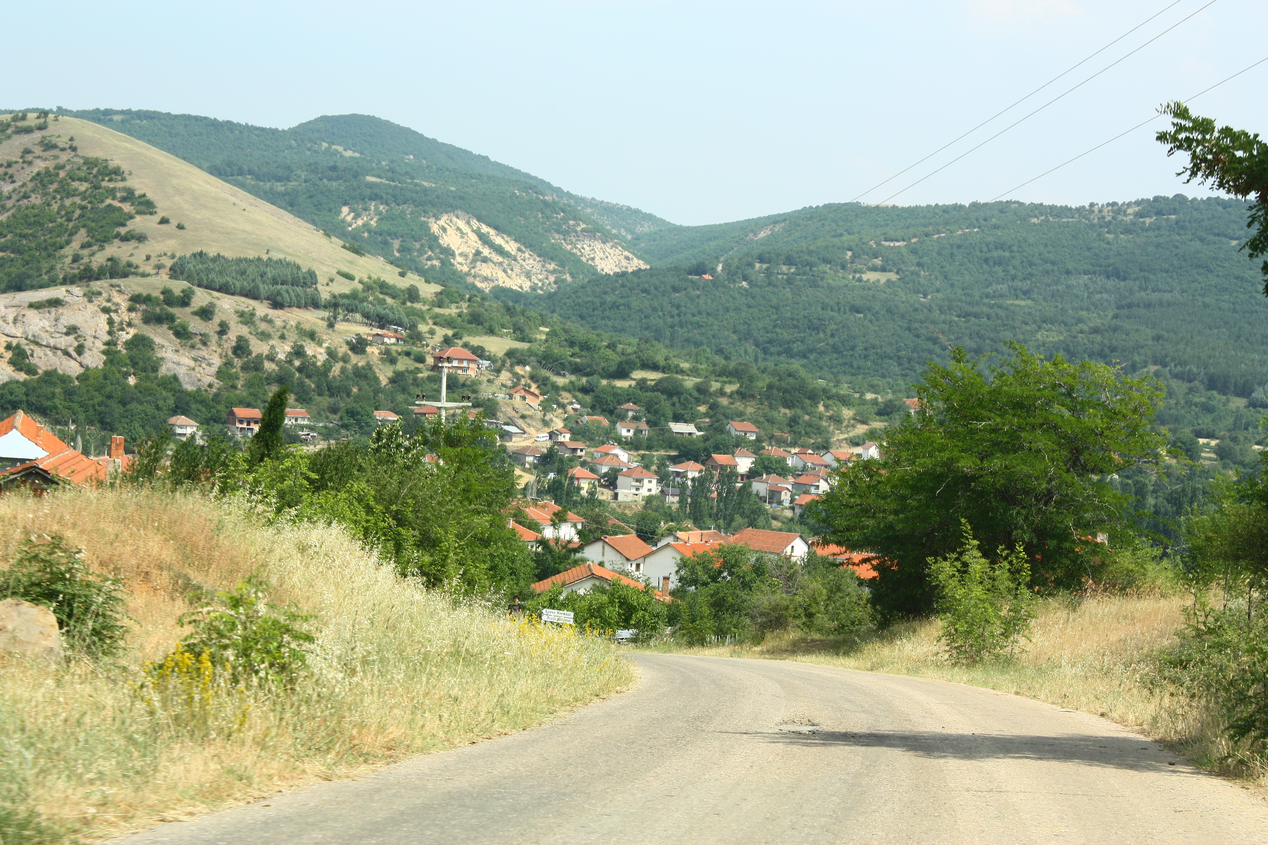 Zletovo, Macedonia